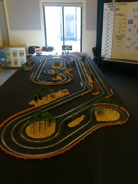 Photo of slot car track